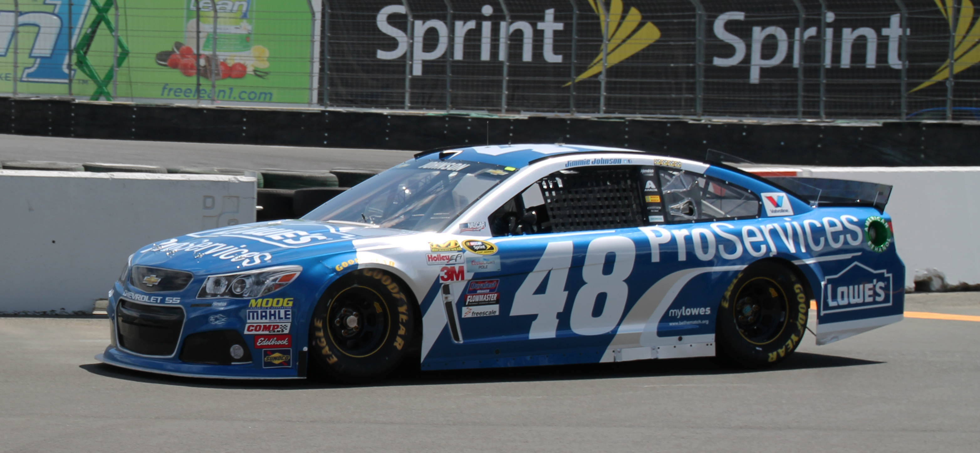 Jimmie Johnson during 2015 Toyota/Save Mart 350 qualifications. Sonoma, California